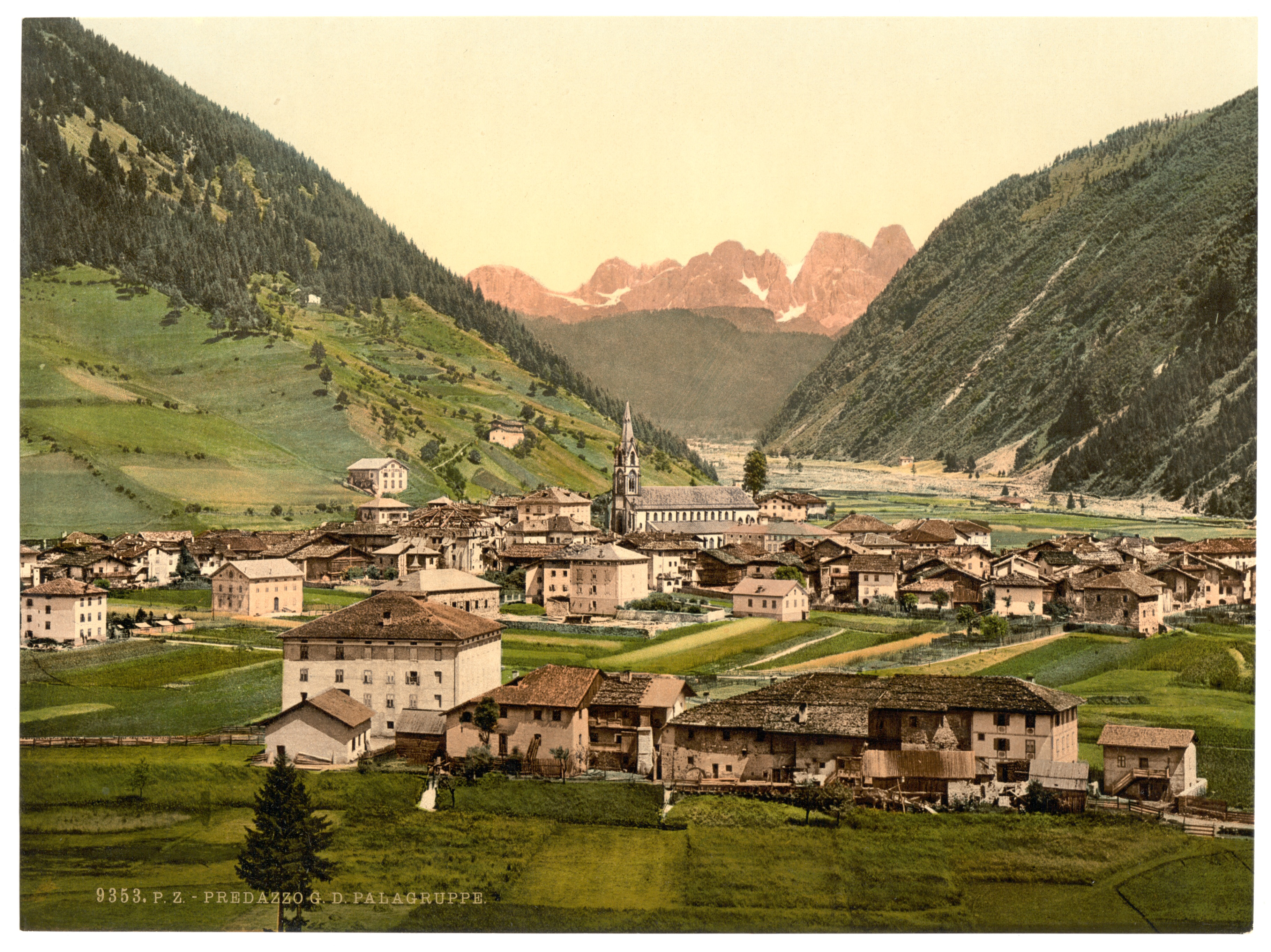 Forms part of: Views of the Austro-Hungarian Empire in the Photochrom print collection.; Print no. "9353".; Title from the Detroit Publishing Co., Catalogue J-foreign section, Detroit, Mich. : Detroit Publishing Company, 1905.